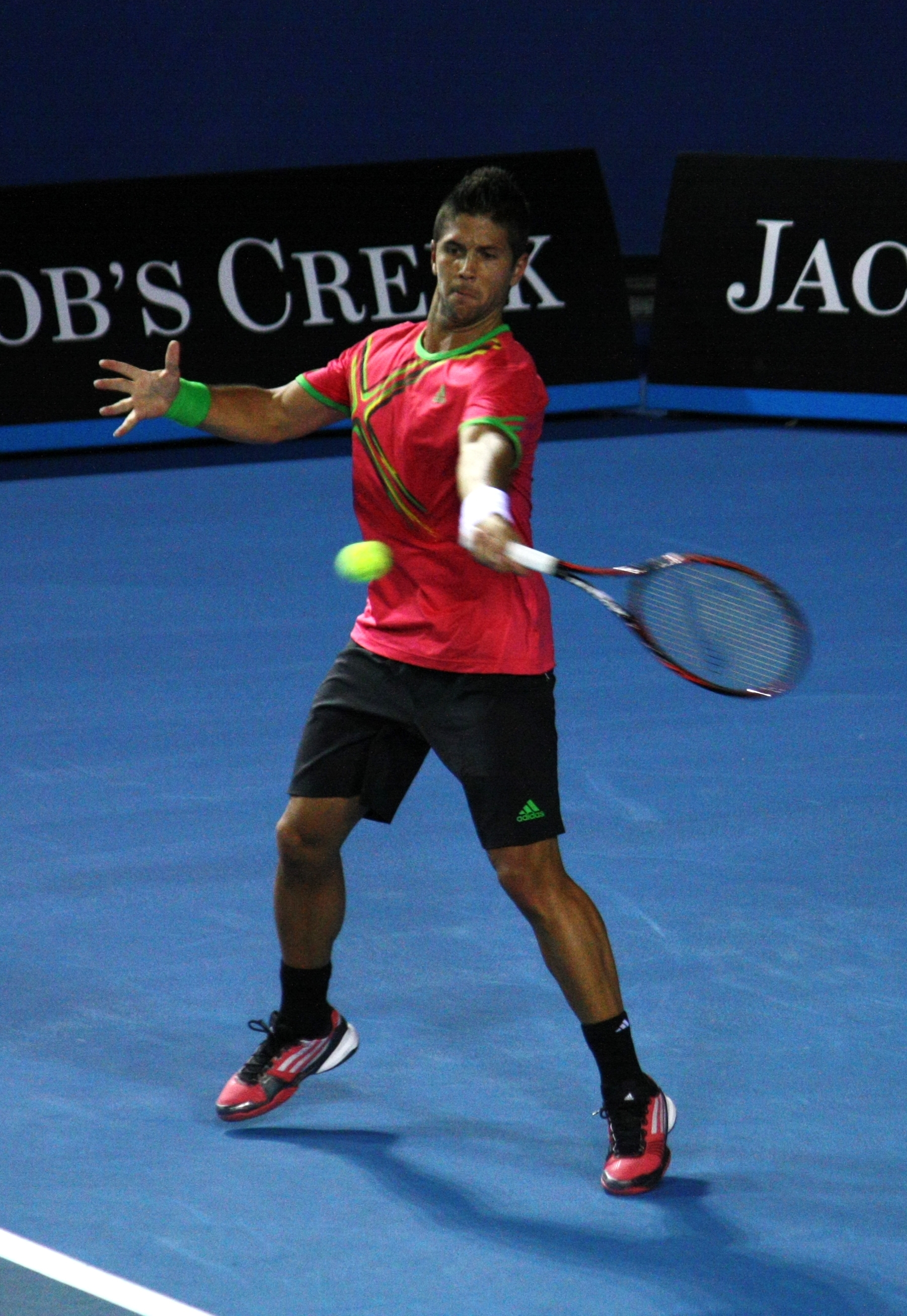 Verdasco's forehand on Australian Open 2011